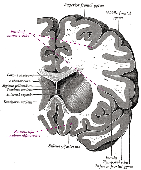 The gyri are the ridges on the surface of the cerbral cortex; the sulci are the grooves or valleys between the sulci; the fundus is the deepest part, or "bottom", of a sulcus.